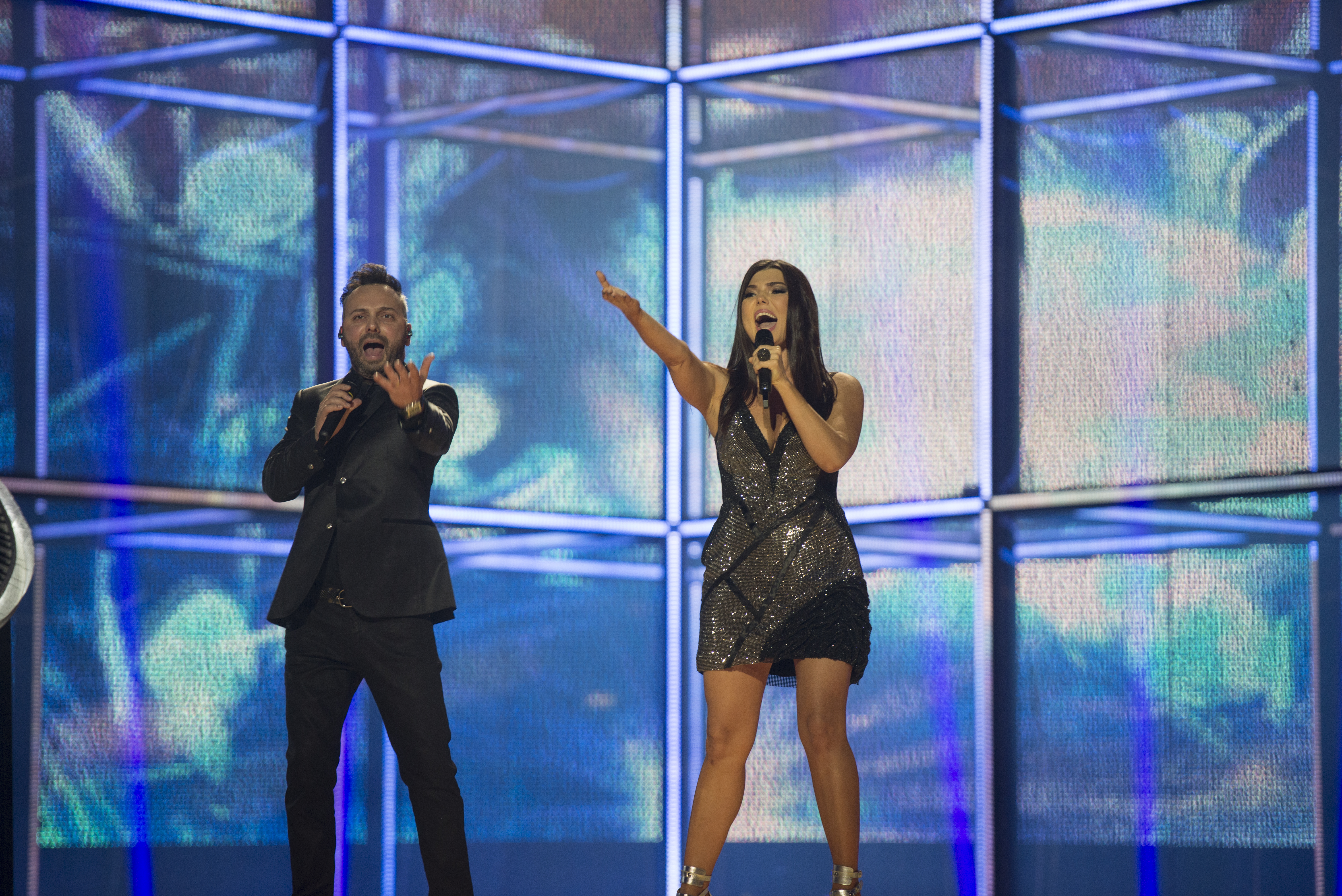 Paula Seling and Ovidiu Cernăuțeanu representing Romania with the song "Miracle" during the first dress rehearsal of the second semi final of the Eurovision Song Contest 2014 Copenhagen. (Help translate this text)